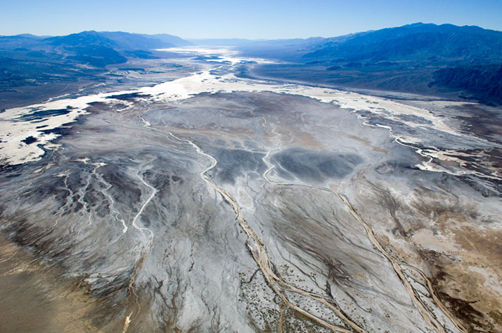 Aerial view of Death Valley.